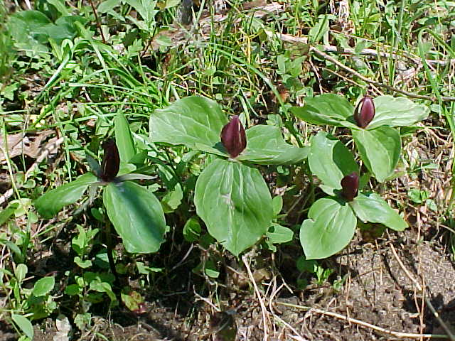 a digital photo of flowering Trillium sessile in family Trilliaceae.